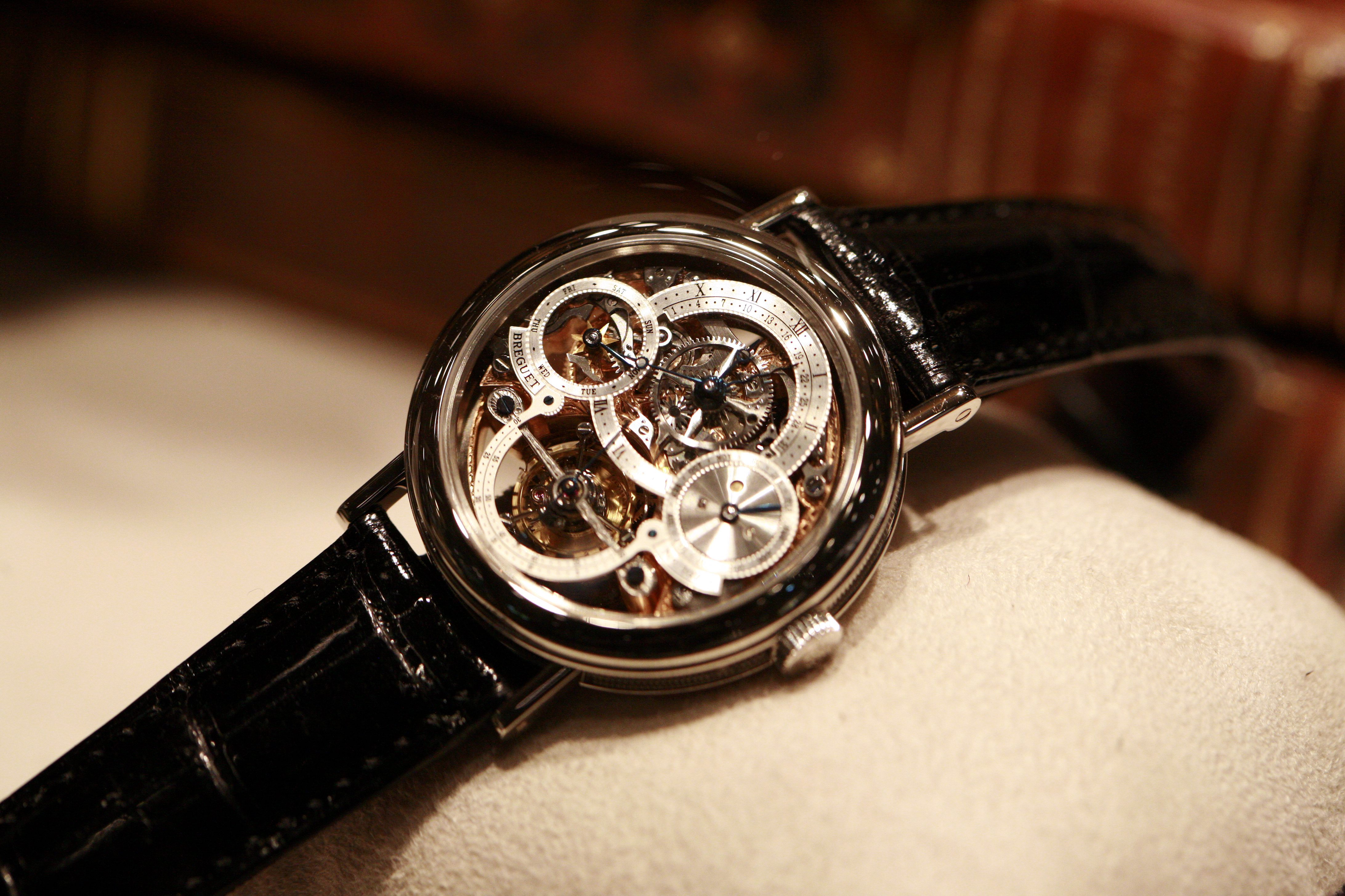 Breguet watch.